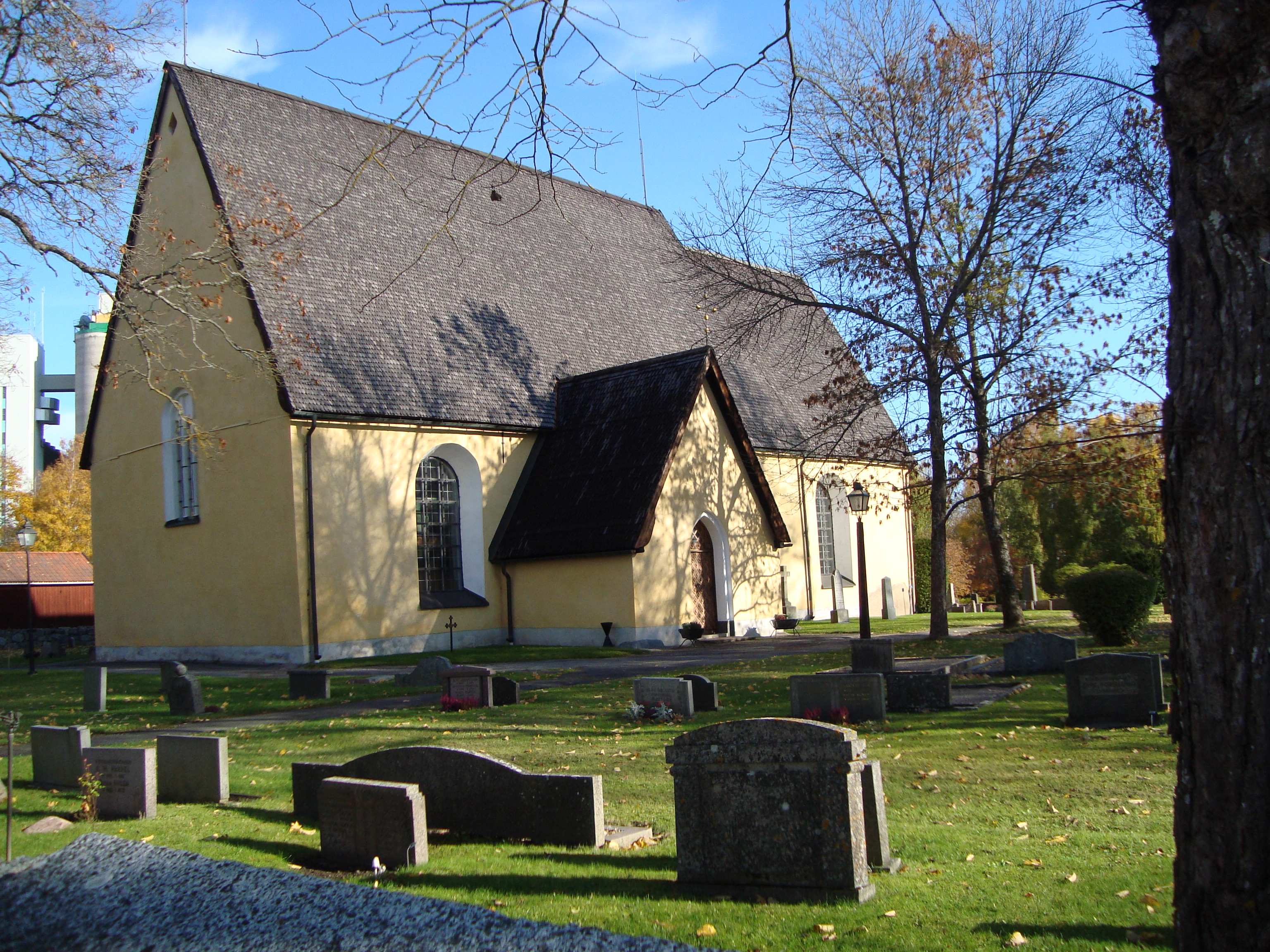 Parish church of Sala, Sweden